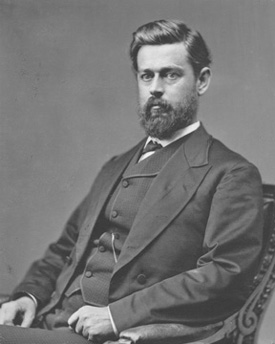 George Congdon Gorham, California politician